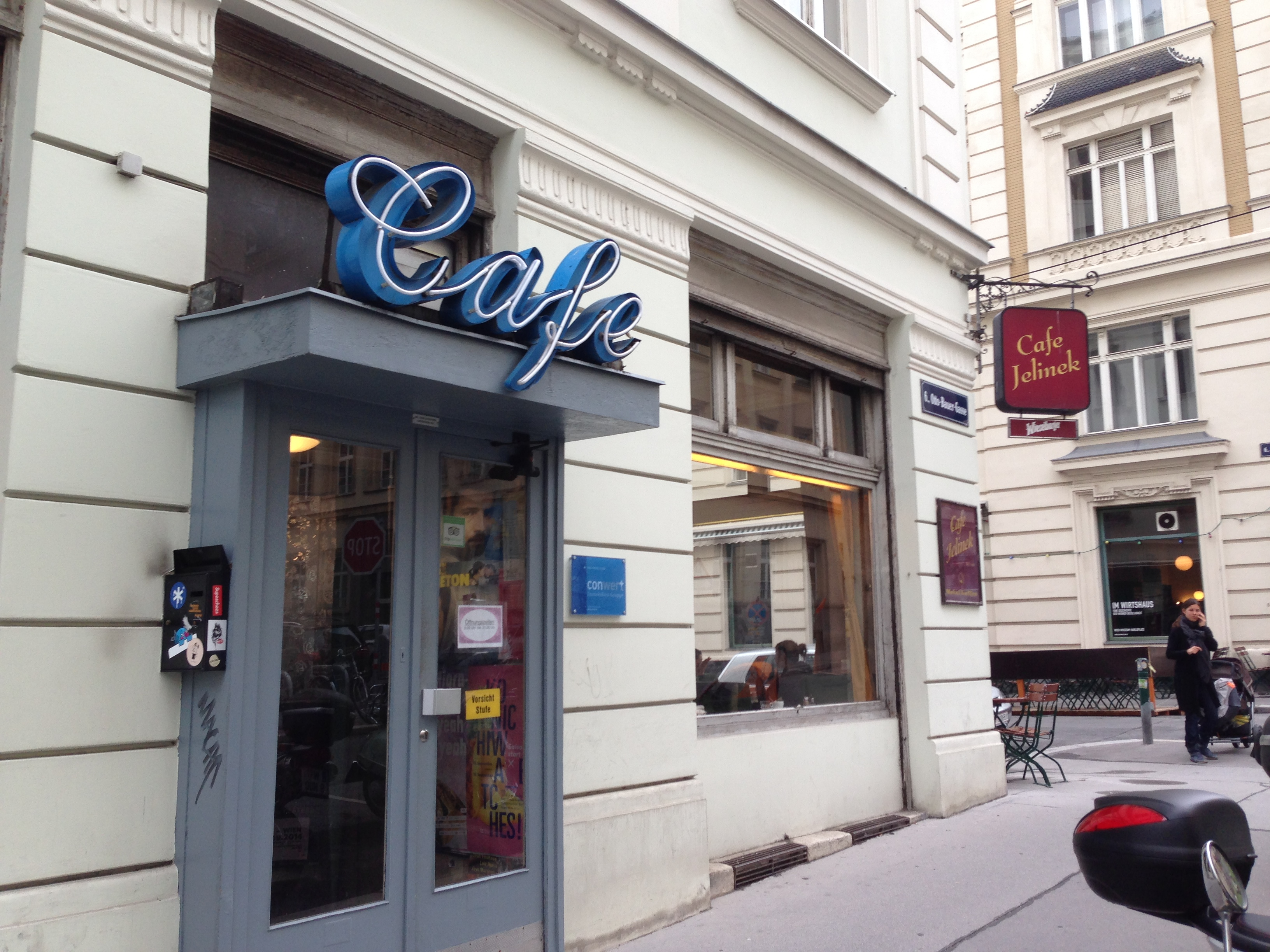 Mariahilf, Vienna.